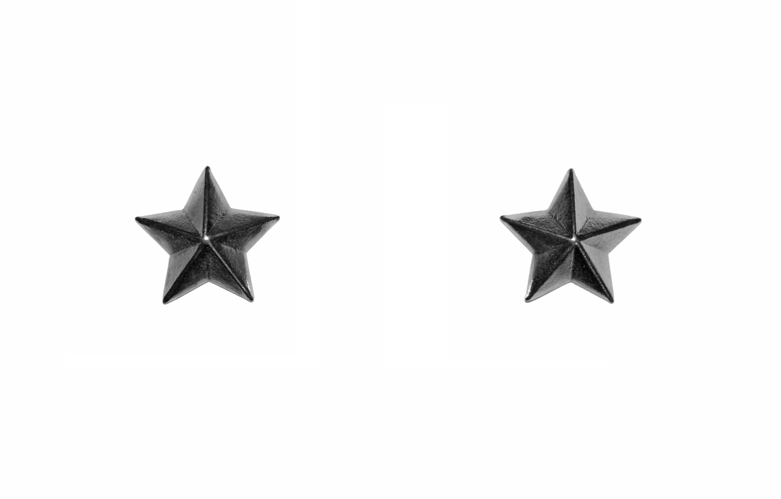 distinctive stars of the Italian military personnel, worn on the uniform's collar.